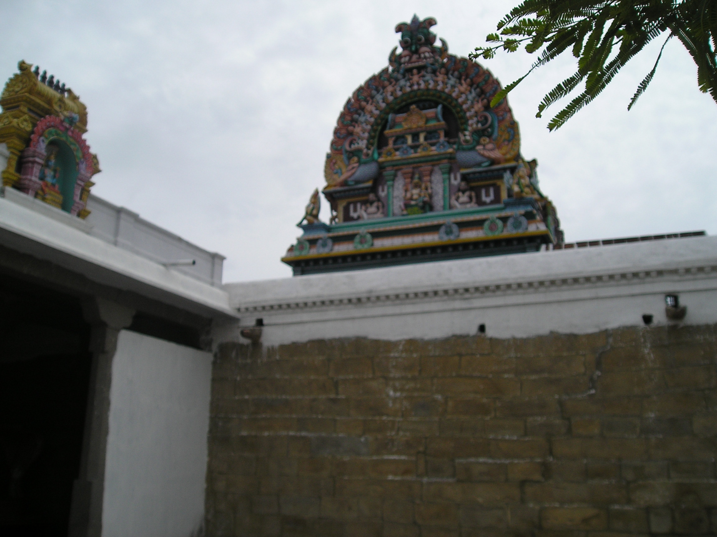 Kanchipuram Temple